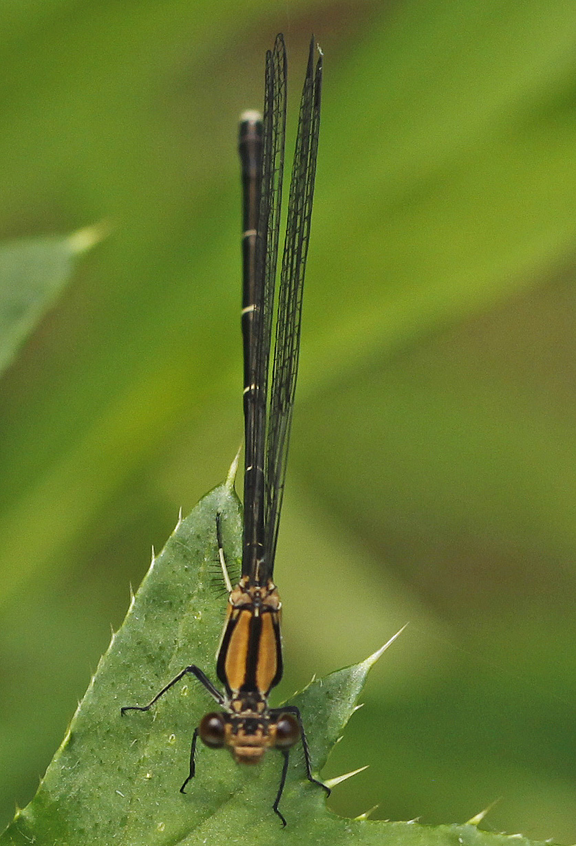 Blue-tipped Dancer - Argia tibialis, Merrimac Farm WMA, Va.